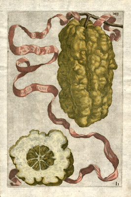 Striatus amalphitanus. Illustration (handcoloured copper plate engraving) from: Giovanni Baptista (or Battista) Ferrari 'Hesperides, 1646